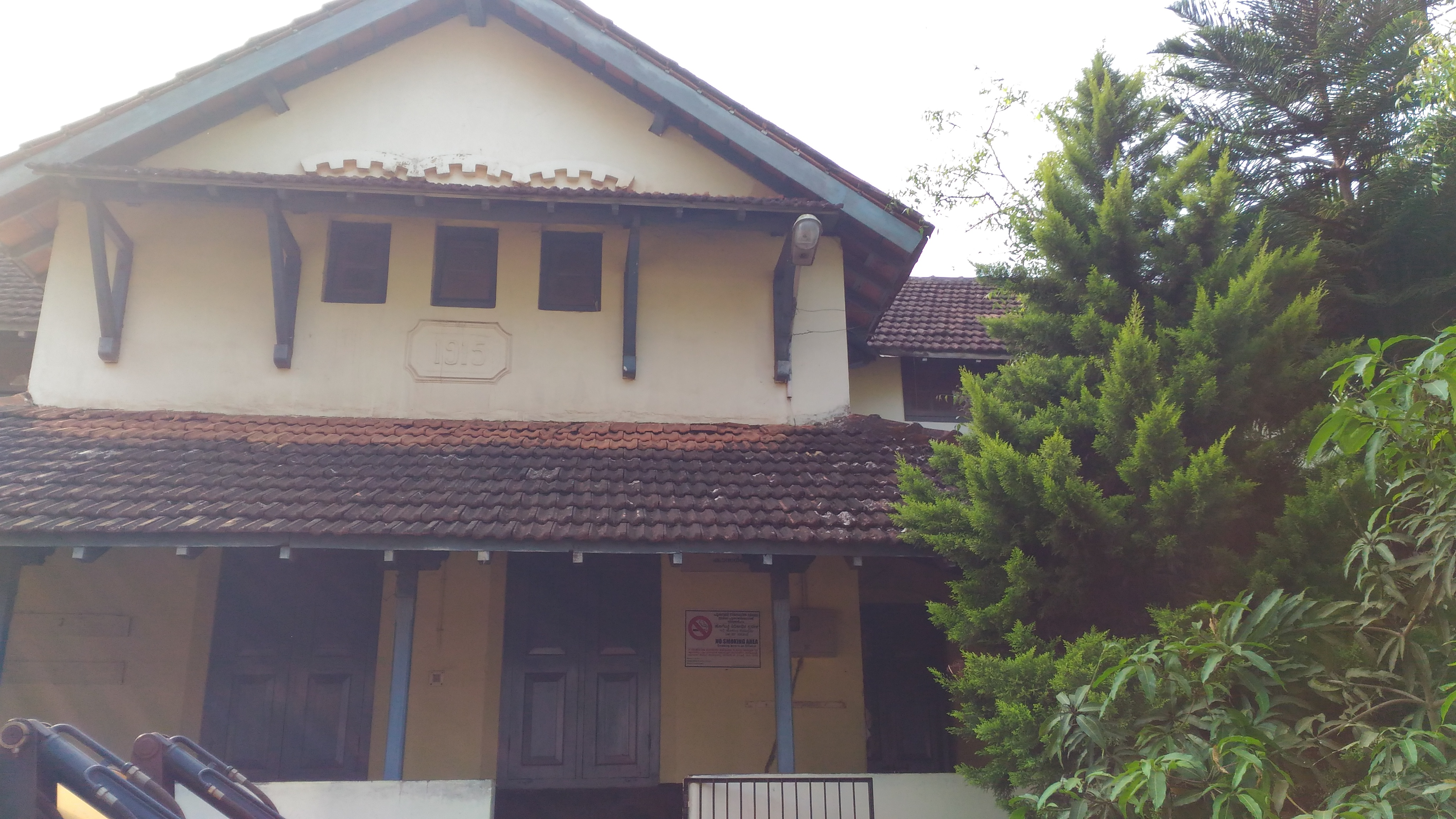 Hosdurg Thaluk Office Old Building. It was built in 1915. It is now keep as a historical monument.